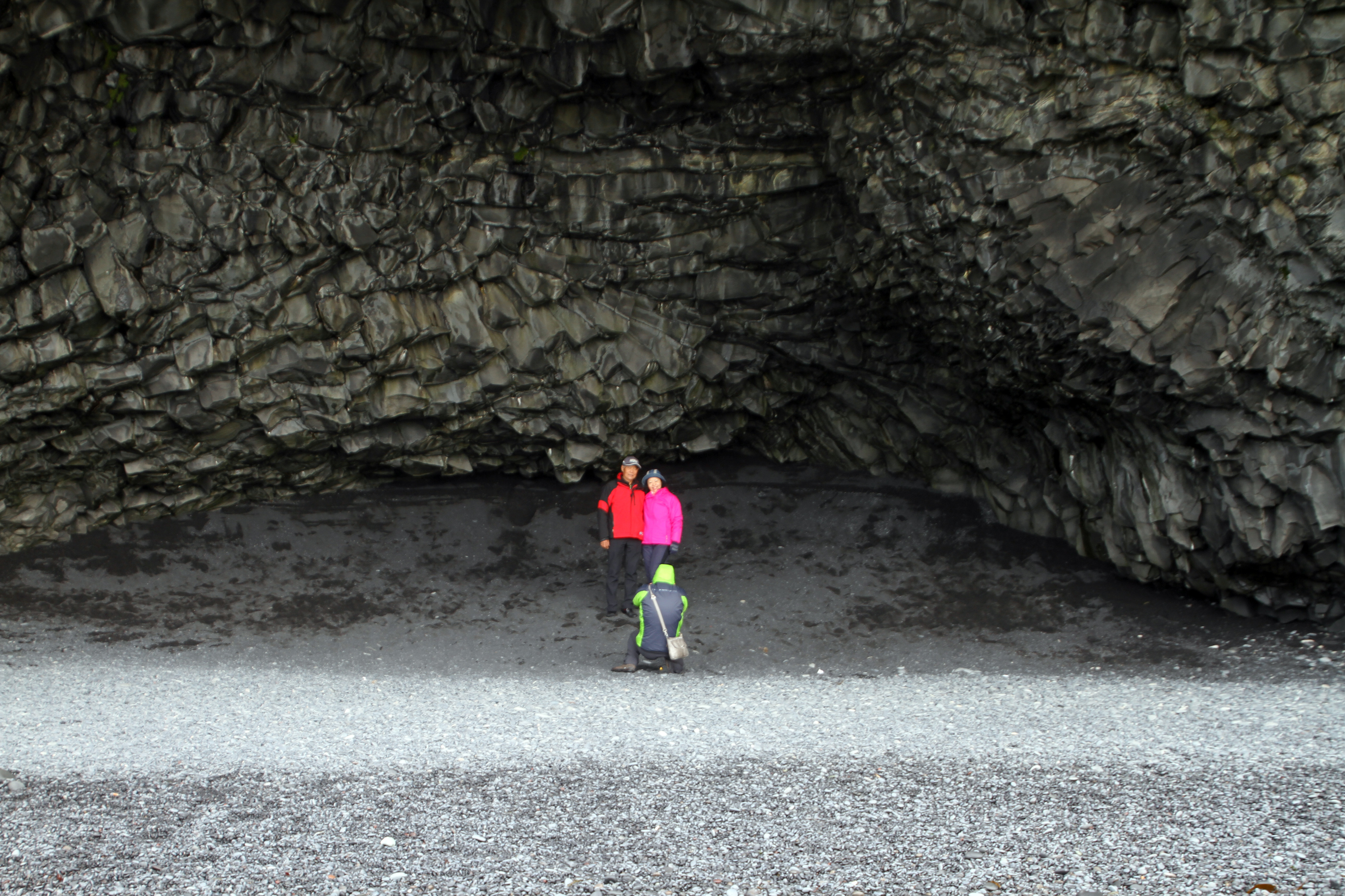 Columnar basalts at Reynisfjara